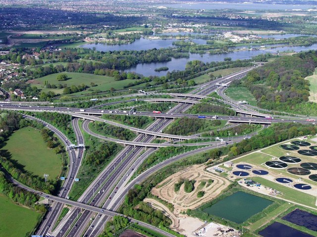 M25 junction 12 intersection with M3 Aerial view looking towards Thorpe park in the distance